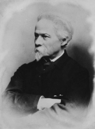 Portrait of architect and painter Napoléon Bourassa. A painting from 1896, published on a funeral card at the time of his death in 1916.